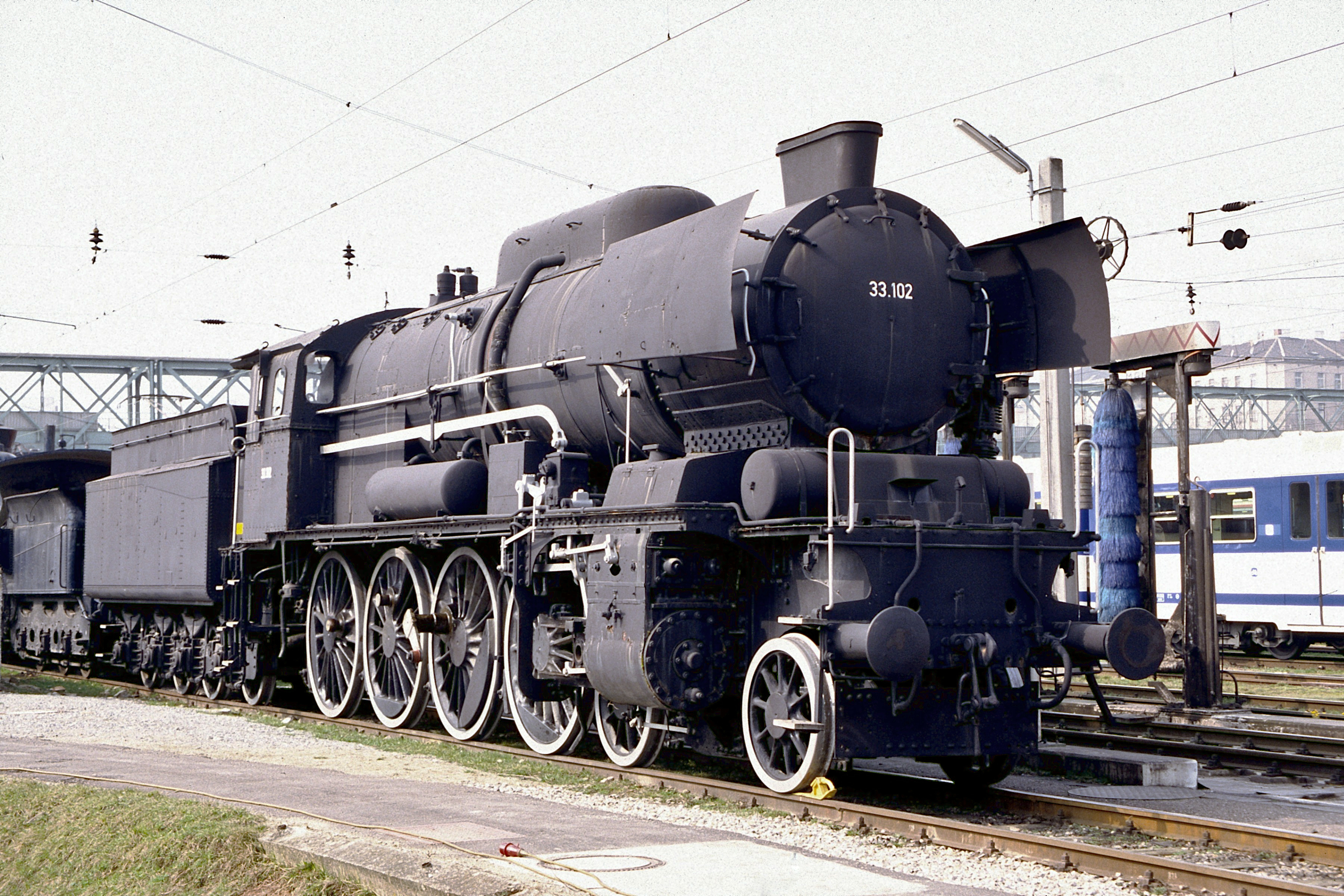 Preserved steam locomotive ÖBB 33.102 (ex BBÖ 113.02) is back on the tracks at Wien Westbahnhof after removal from the technical museum in Vienna.